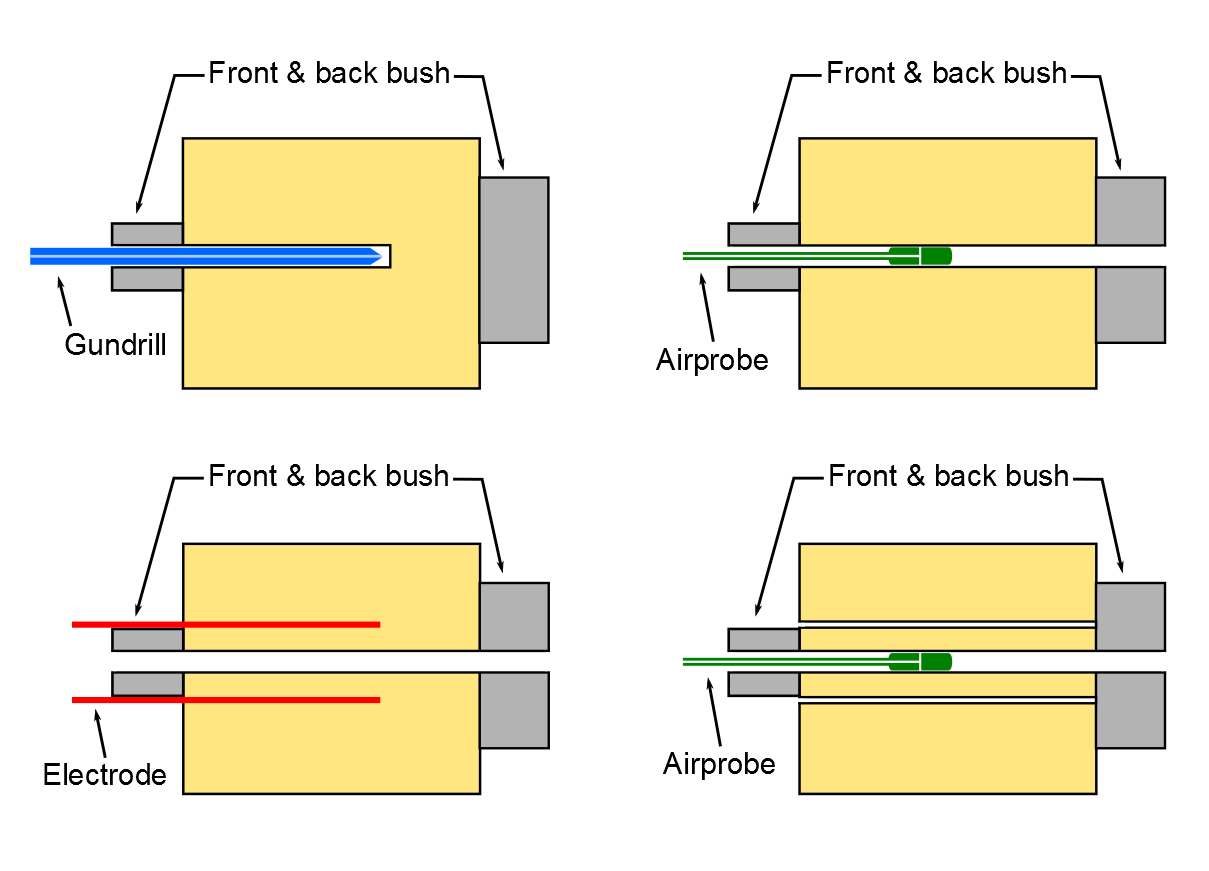 A diagram showing the stages of the Deep Hole Drilling (DHD) residual stress measurement technique.